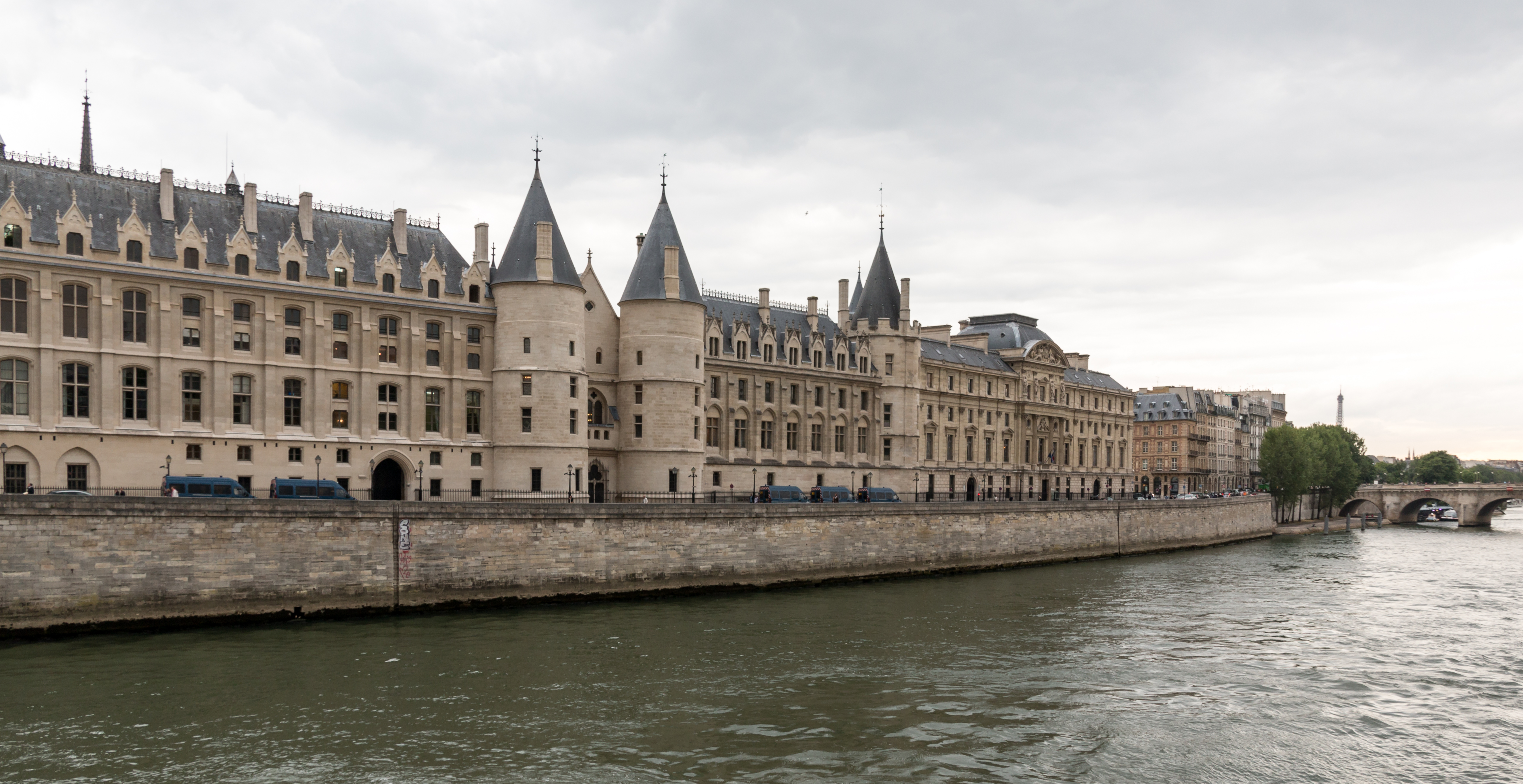 Conciergerie, Paris, France